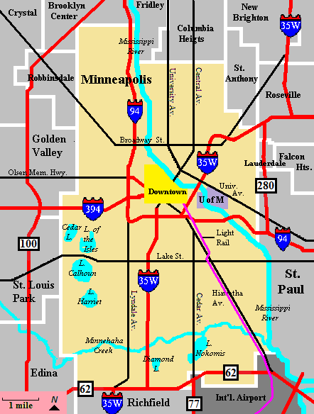 Map of the city of Minneapolis, Minnesota, USA. Showing the primary roads, geographic features, and surrounding communities.